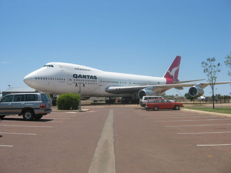 Ex-Qantas 747-200 (VH-EBQ) at the Qantas Founders Museum in Longreach, Queensland.